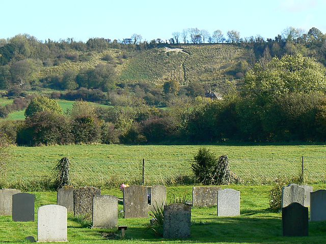 Churchyard and graves, Christ Church, Broad Town The eastern part of the churchyard crosses the eastern gridline of the square. Most of the graves visible here are in the square, the fence is just outside it. The white horse is about a kilometre away.